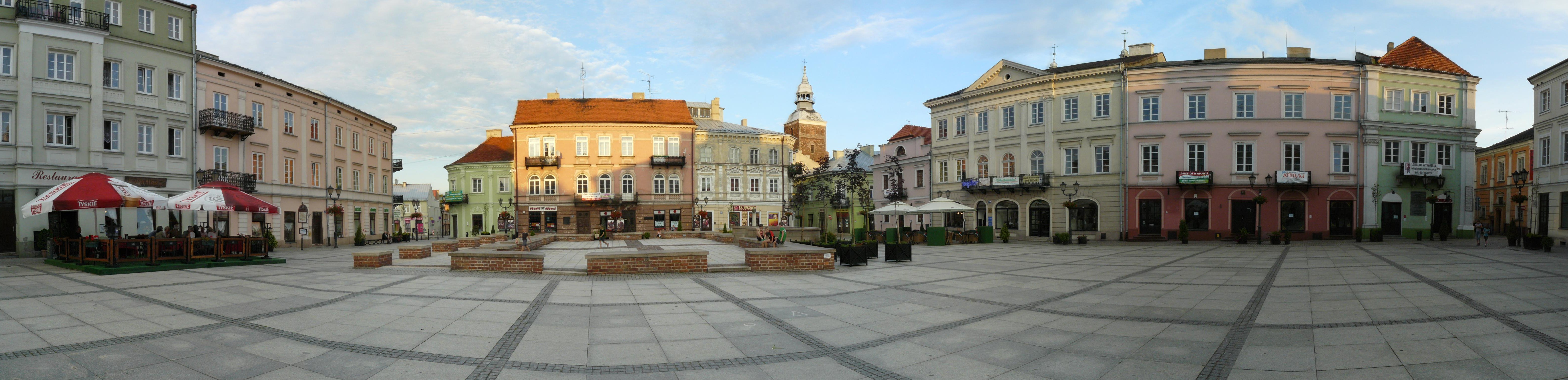 Panorama of market square lacated in old town in Piotrkow Trybunalski (PL).